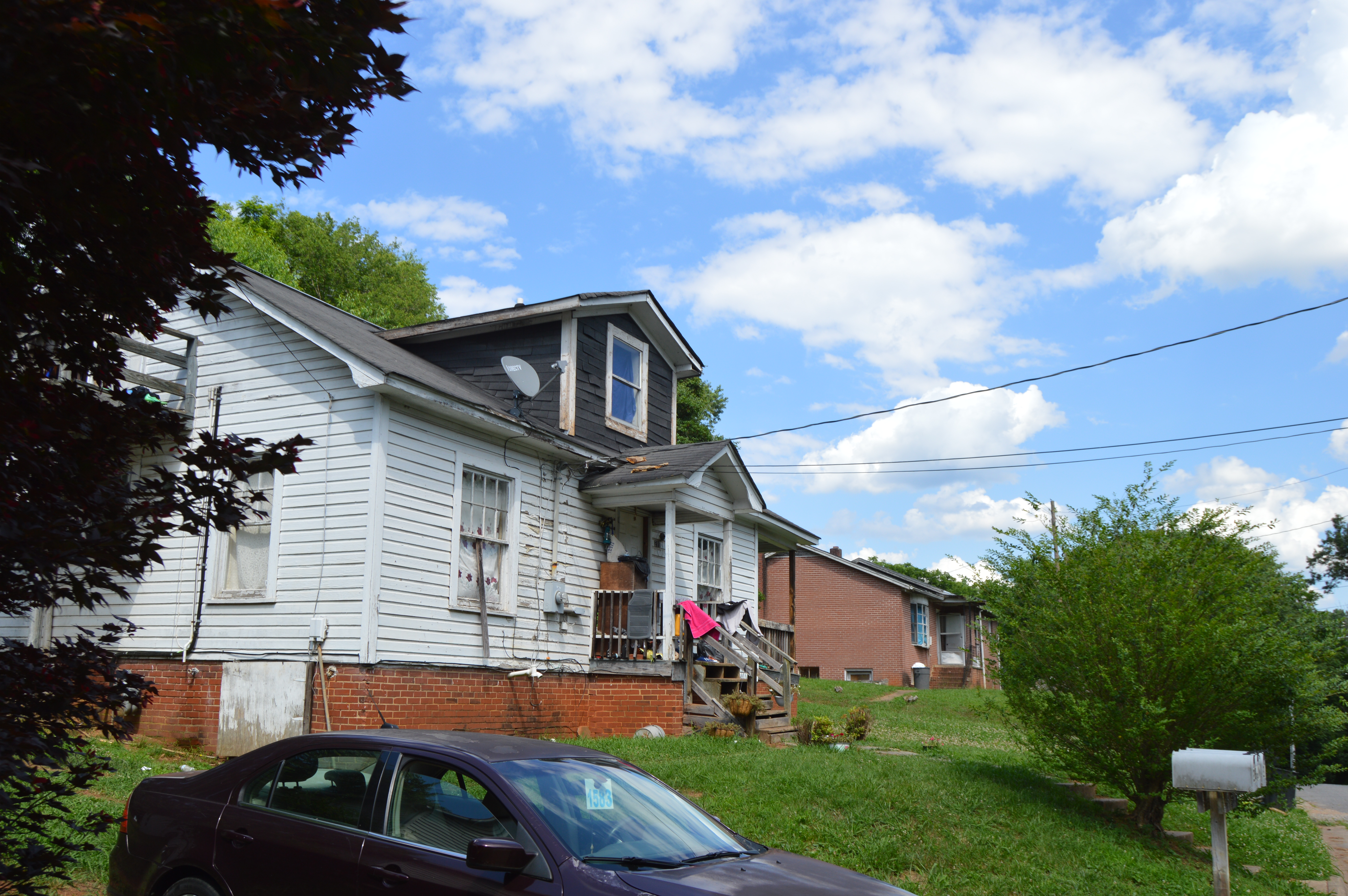 Houses on Anderson Street west of Lytle Street in Morganton, North Carolina, United States. This block of Anderson is part of the Jonesboro Historic District, a historic district that is listed on the National Register of Historic Places.